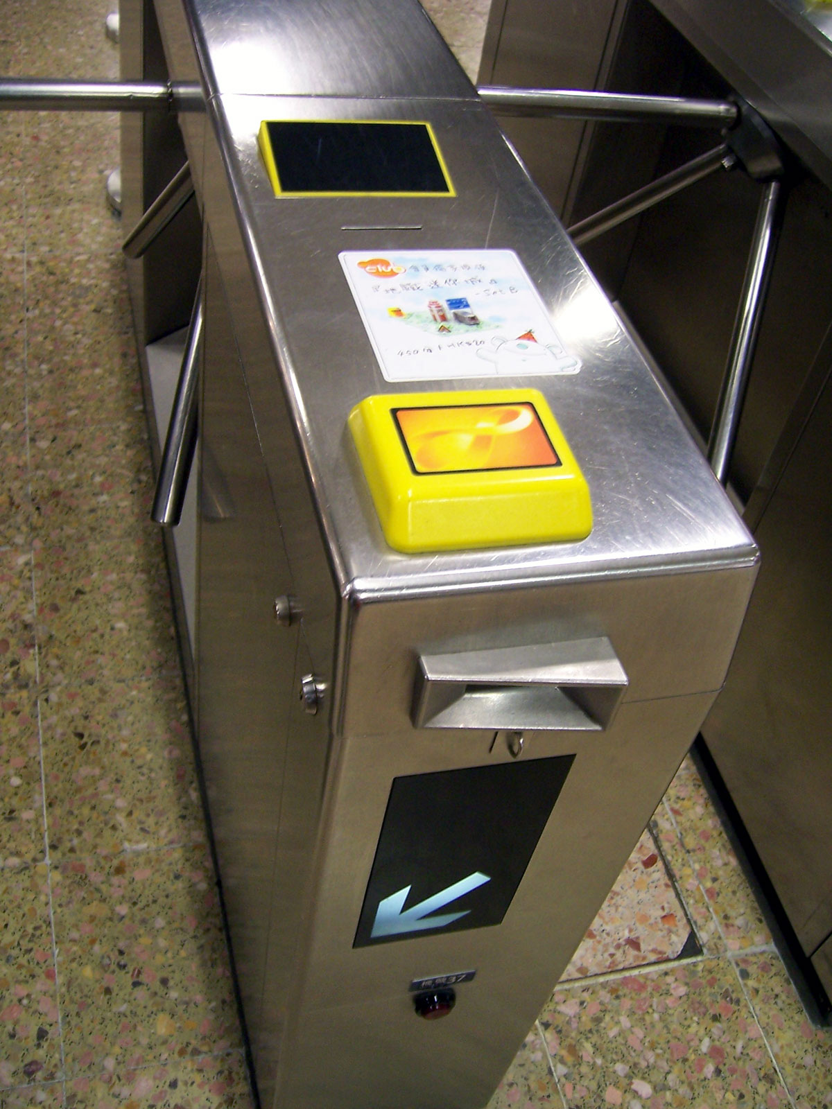 A gate at Central (MTR), Hong Kong, with a Octopus card reader. Taken by Enoch Lau on 3 January 2006. As a courtesy, please let me know if you alter this image or this image description page. Original filename was 100_1345.JPG.